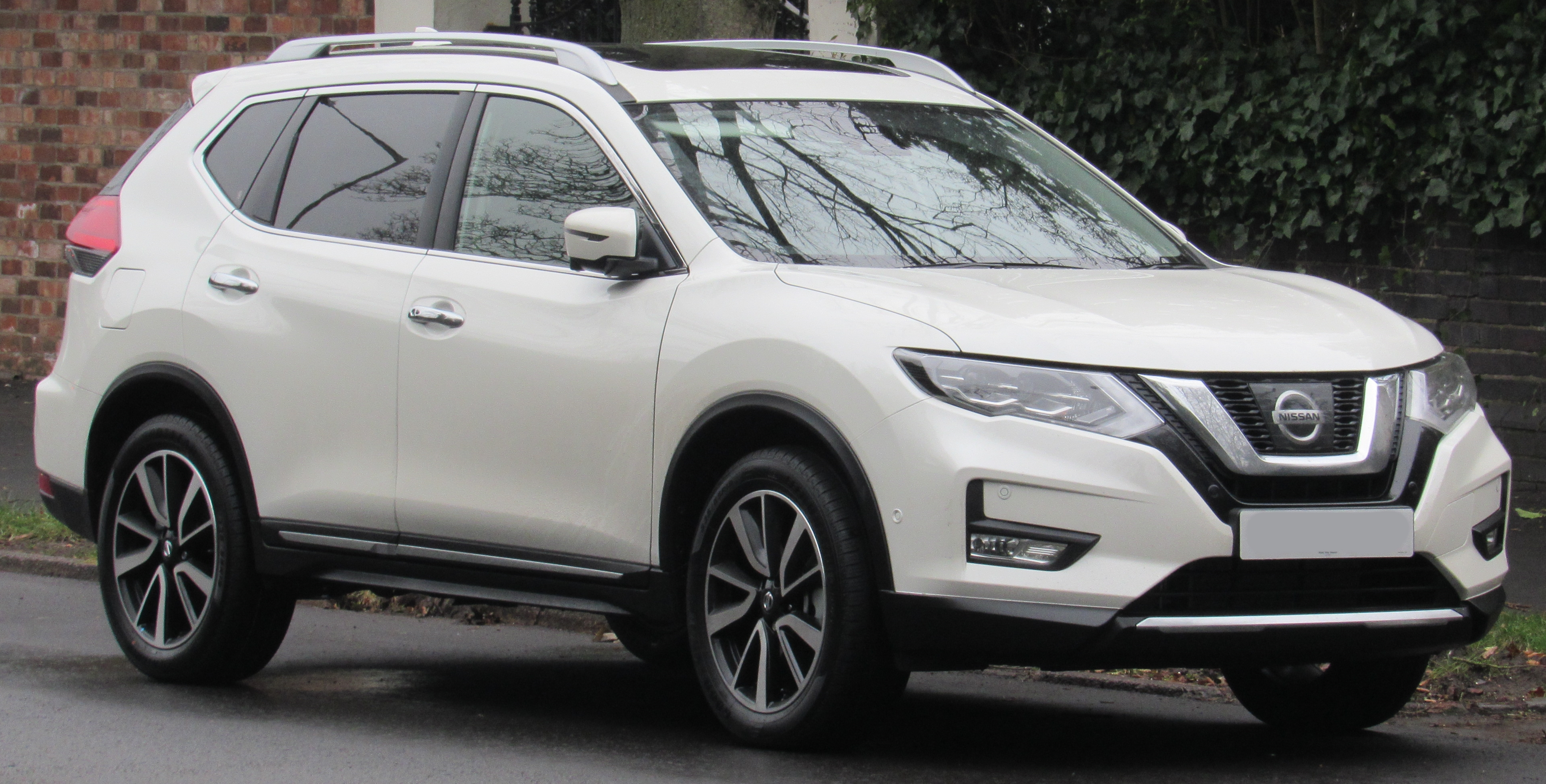 2017 Nissan X-Trail Tekna Dig-T facelift 1.6 Front Taken in Leamington Spa